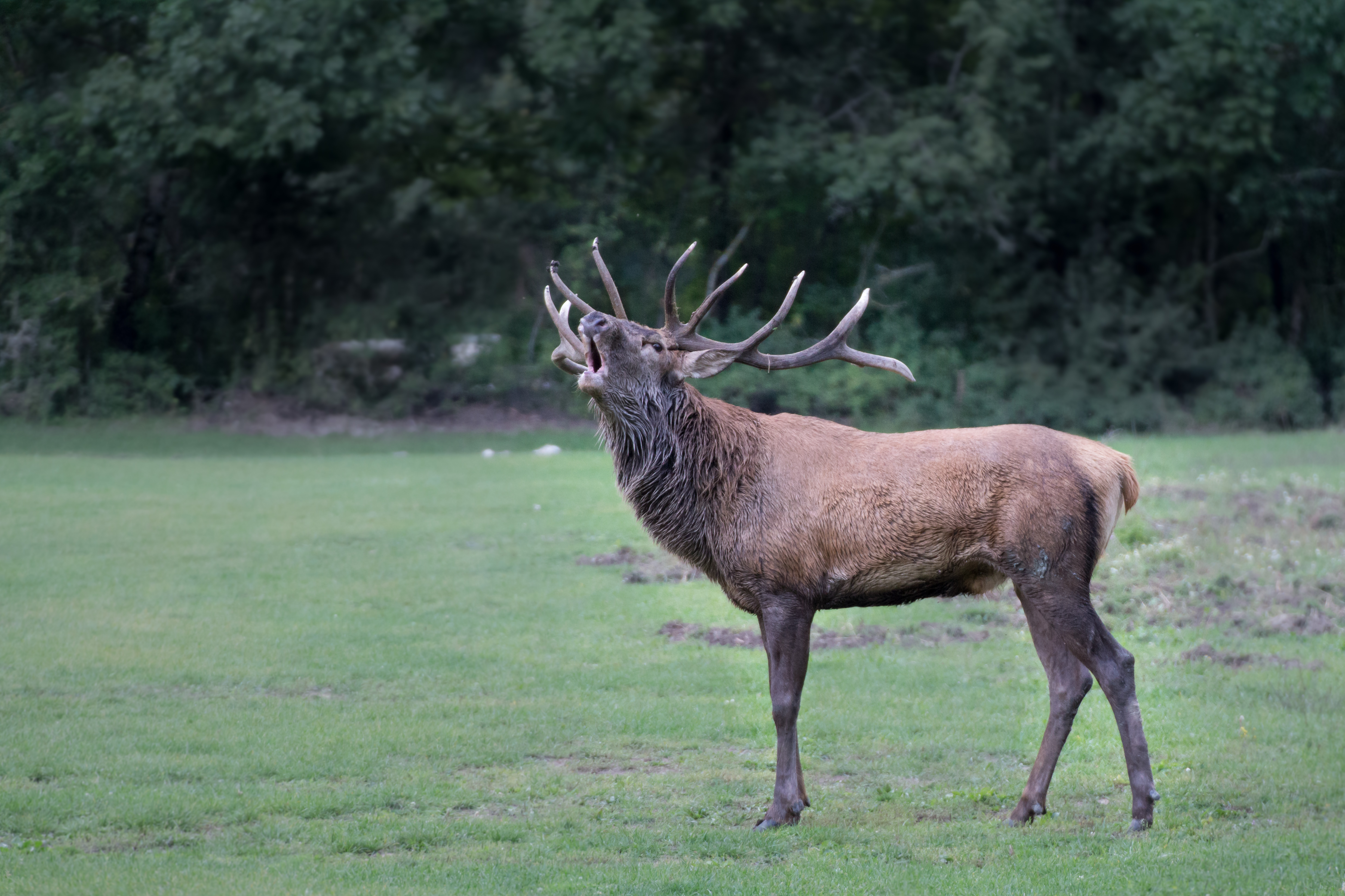 The Cervus elaphus during the rut (mating season). From mid-September to October, the males fight to defend their territory and gain the herd of females.